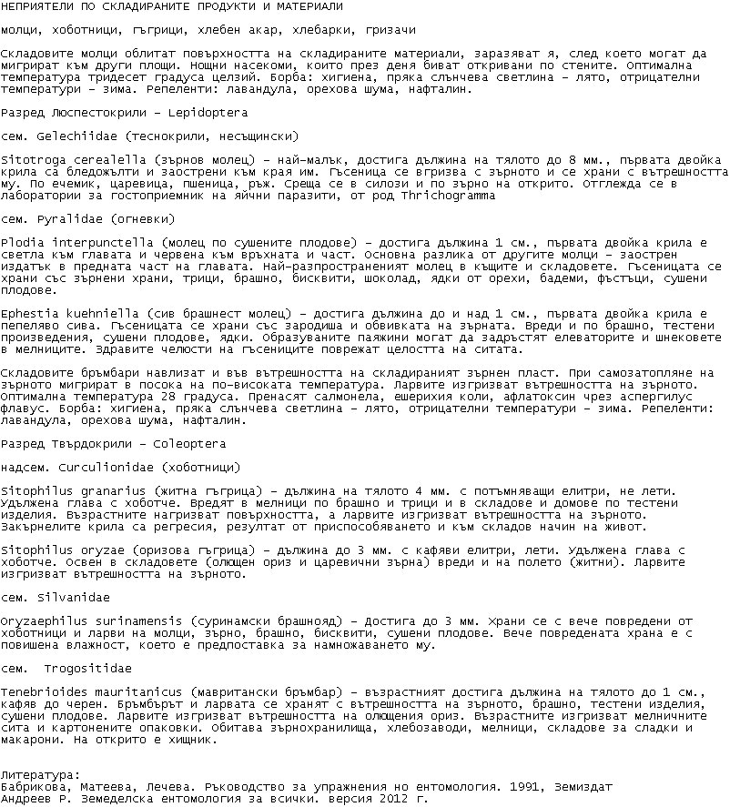 Lepidoptera and coleoptera in storehouse for grain and food in Bulgaria